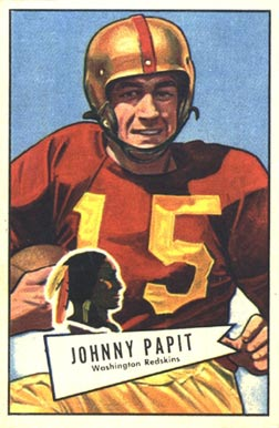 American football player John Papit on a 1952 Bowman Large card.